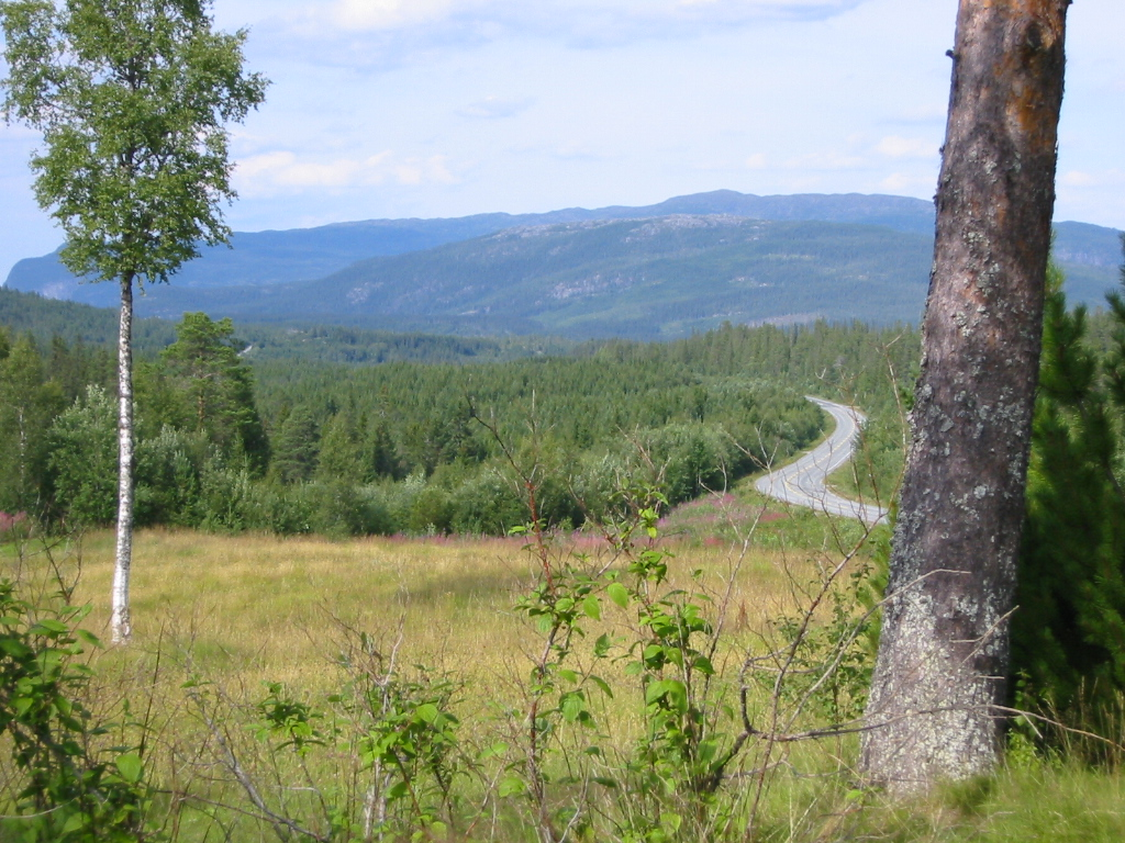 E6 road in Grong municipality in Namdalen valley, Nord-Trøndelag county, Norway.